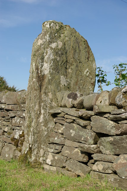 Standing Stone at Glenlussa Lodge